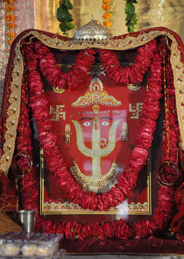 Shri Rani Sati Dadi Temple Idol